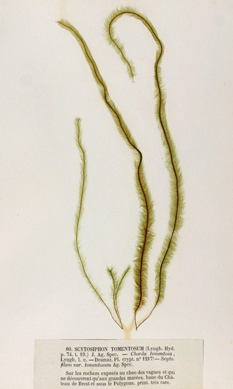 « Scytosiphon tomentosum » = Halosiphon tomentosus